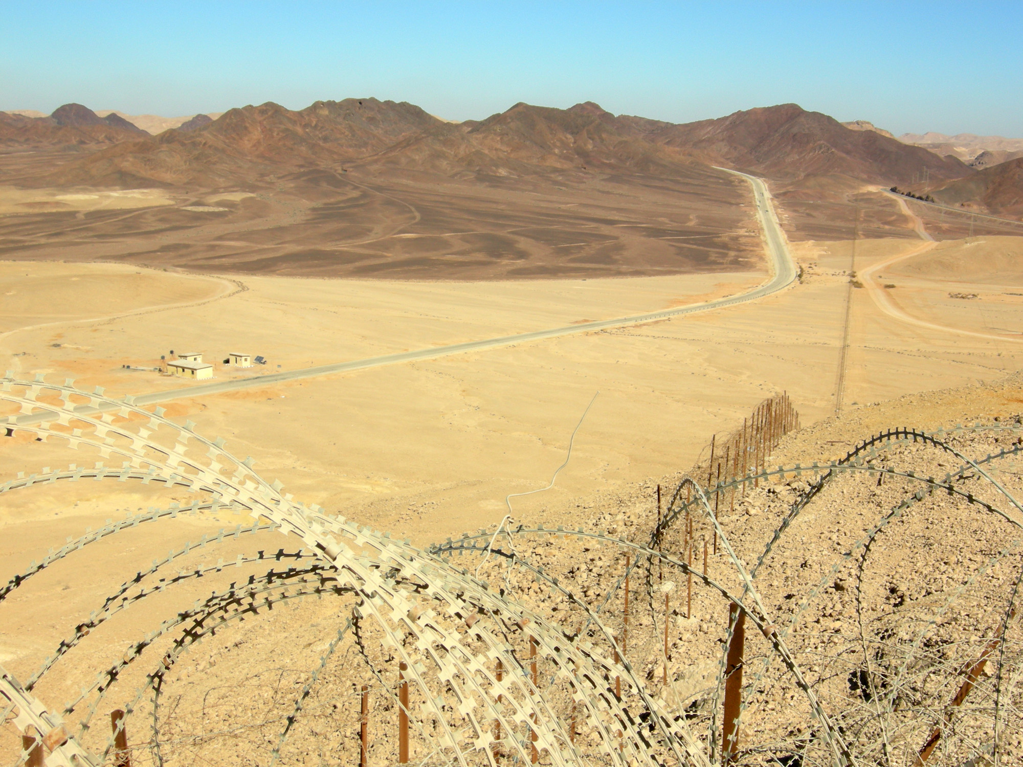 Looking north along Egypt-Israel border north of Eilat.